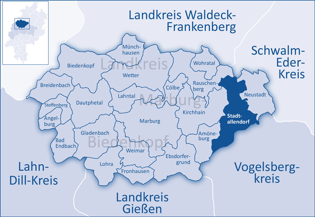 The map shows the municipal territory of Stadtallendorf in the district of Marburg-Biedenkopf.